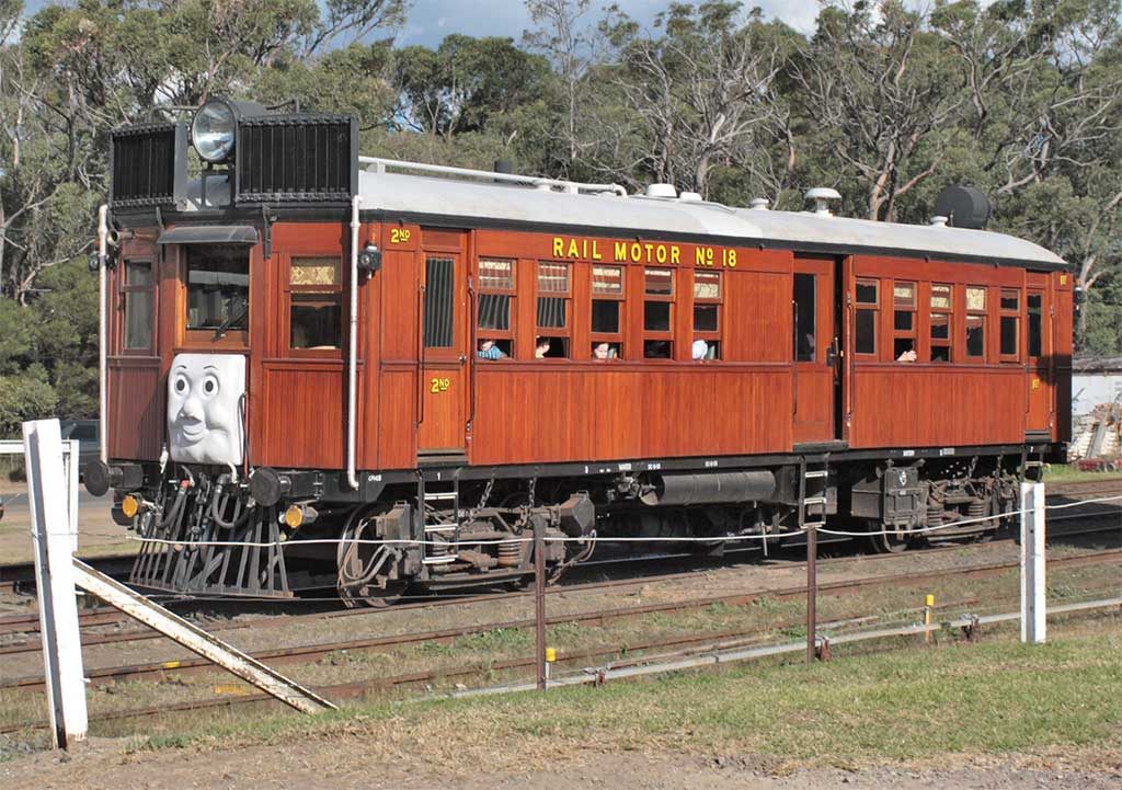 Rail Motor CPH 18 operating as tourist train at the Rail Transport Museum, Thirlmere NSW Australia